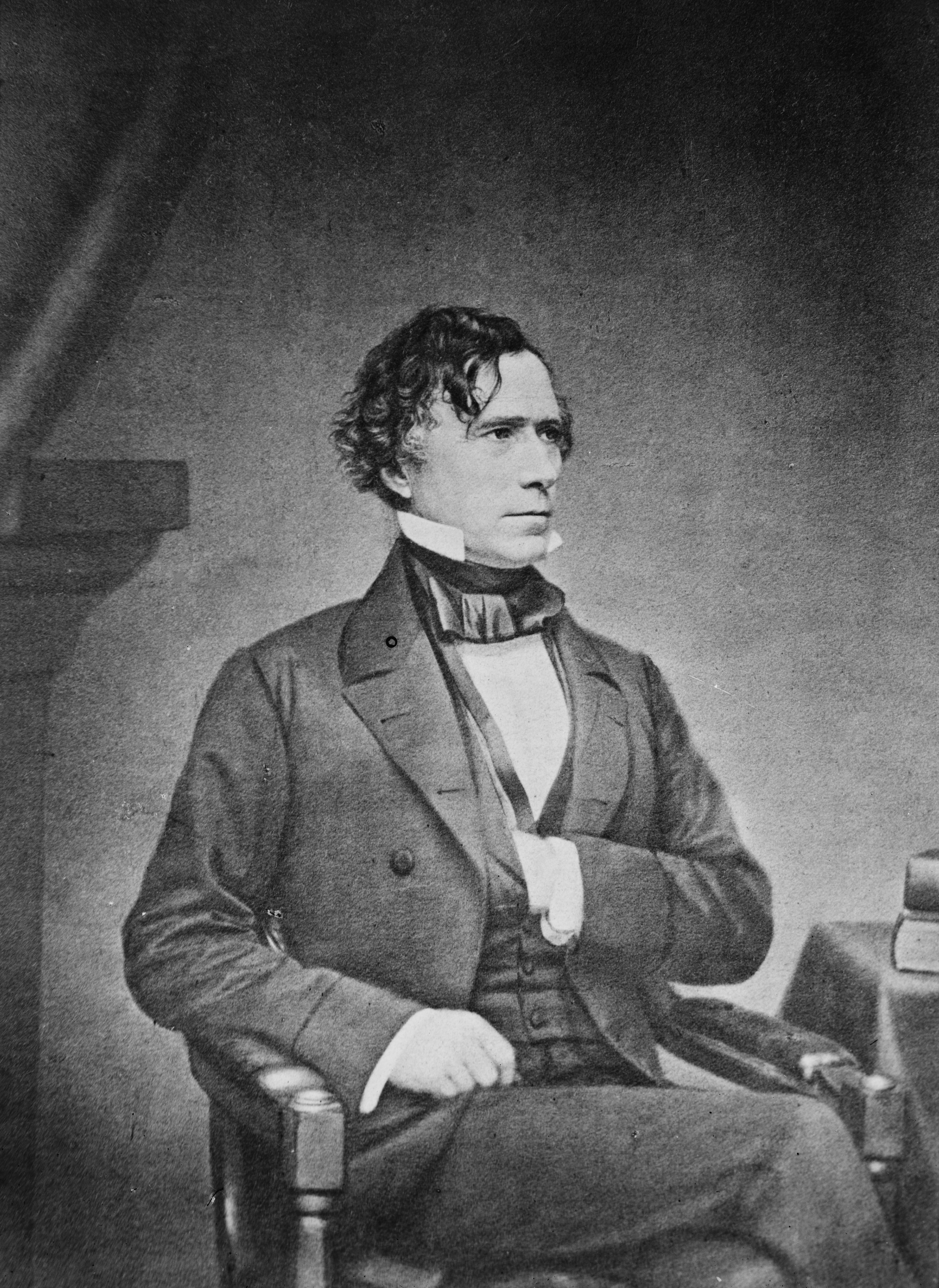 Portrait of Franklin Pierce (1804–1869), 14th president of the United States. Pierce, a Democrat, served from 1853 to 1857 and was rejected by his party for a second term; his major acts as president include the Gadsden Purchase and the Kansas–Nebraska Act. The image is part of the Brady–Handy Photograph Collection of the Library of Congress. The entry describes it as a "Copy neg. from original ink by Brady after Daguerreotype".